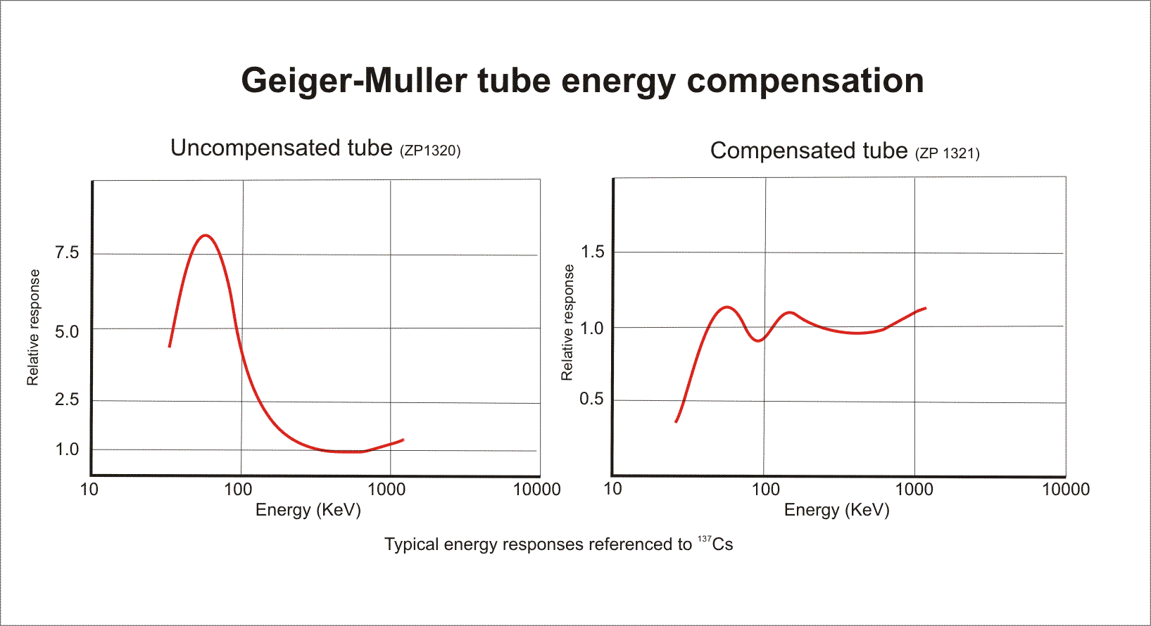 Comparison of compensated and non-compensated Geiger tubes